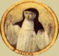 A mediallion representing Beatrice of Nazareth, a famous beguine and mystic scholar